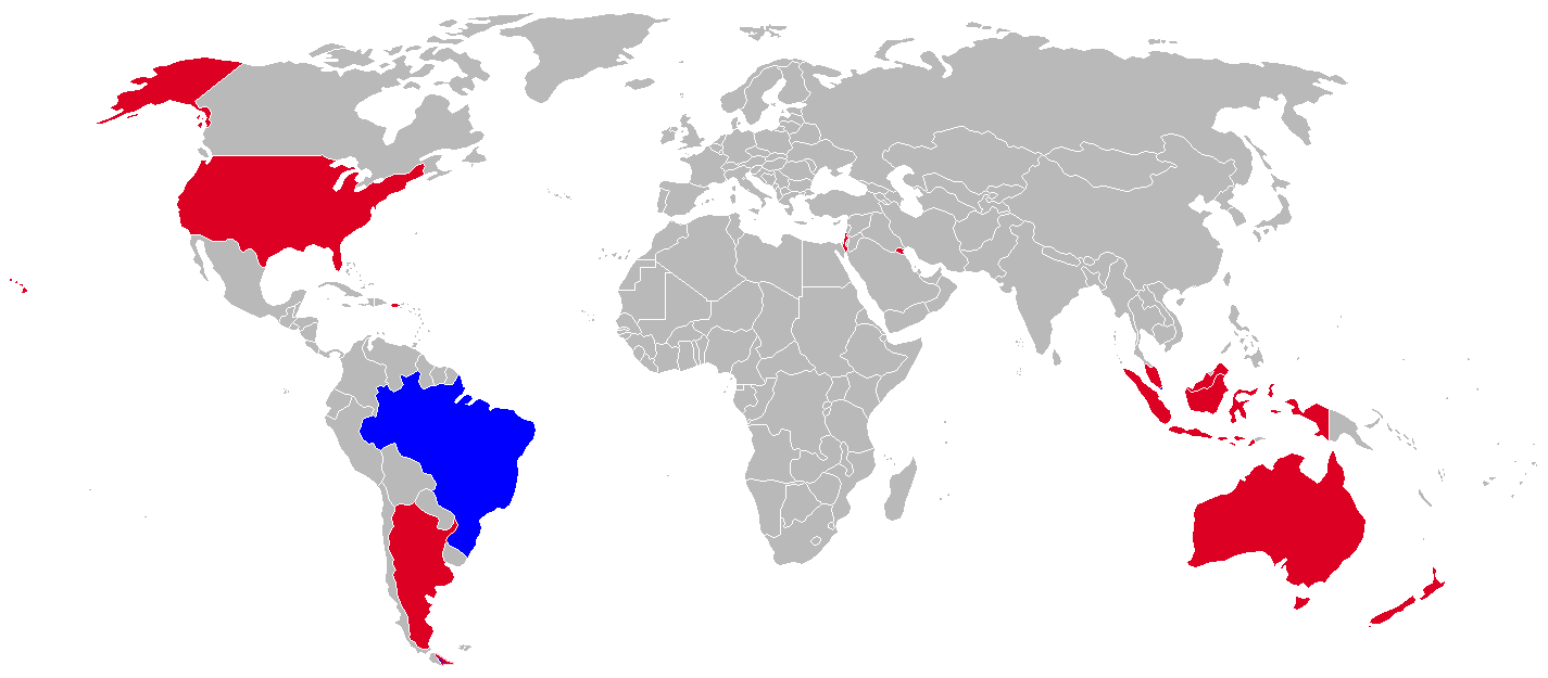 Operators of the Douglas A-4 Skyhawk. Dark blue = current operator, red = retired.